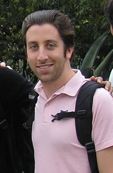 Simon Helberg shot on 2008 while a tour with the rest of The Big Bang Theory Cast.